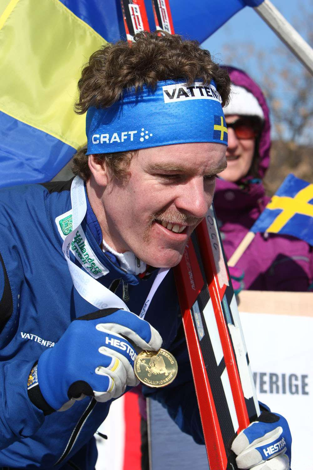 Peter Arnesson at European Ski-Orienteering Championship 2010, (8th - 15th February, 2010; Miercurea Ciuc, Romania)